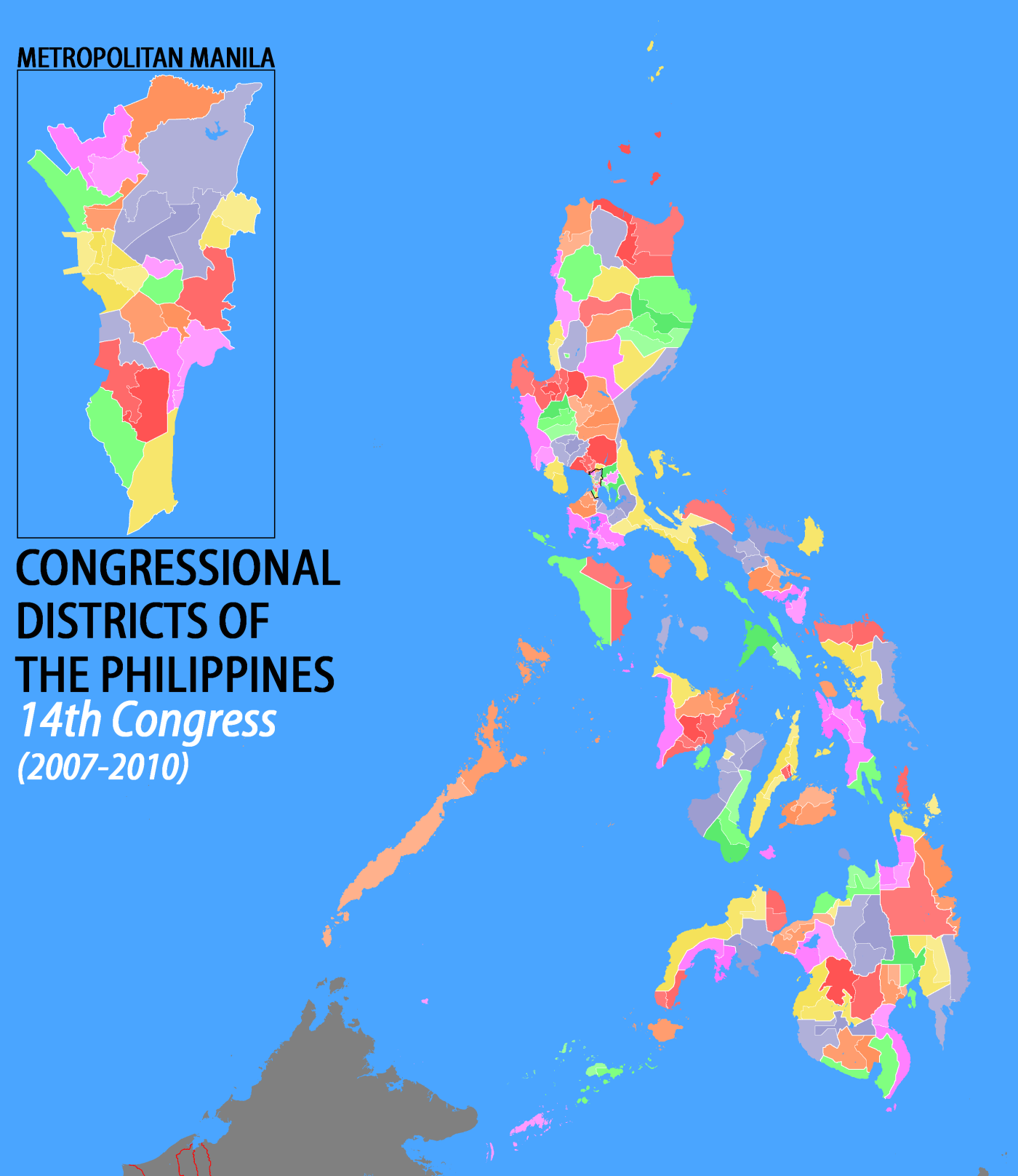 Map of Philippine congressional districts as apportioned for the 2007 elections. Tagalog: Mapa ng mga distritong pangkonggreso sang-ayon sa pagbabahagi para sa halalan noong 2007.